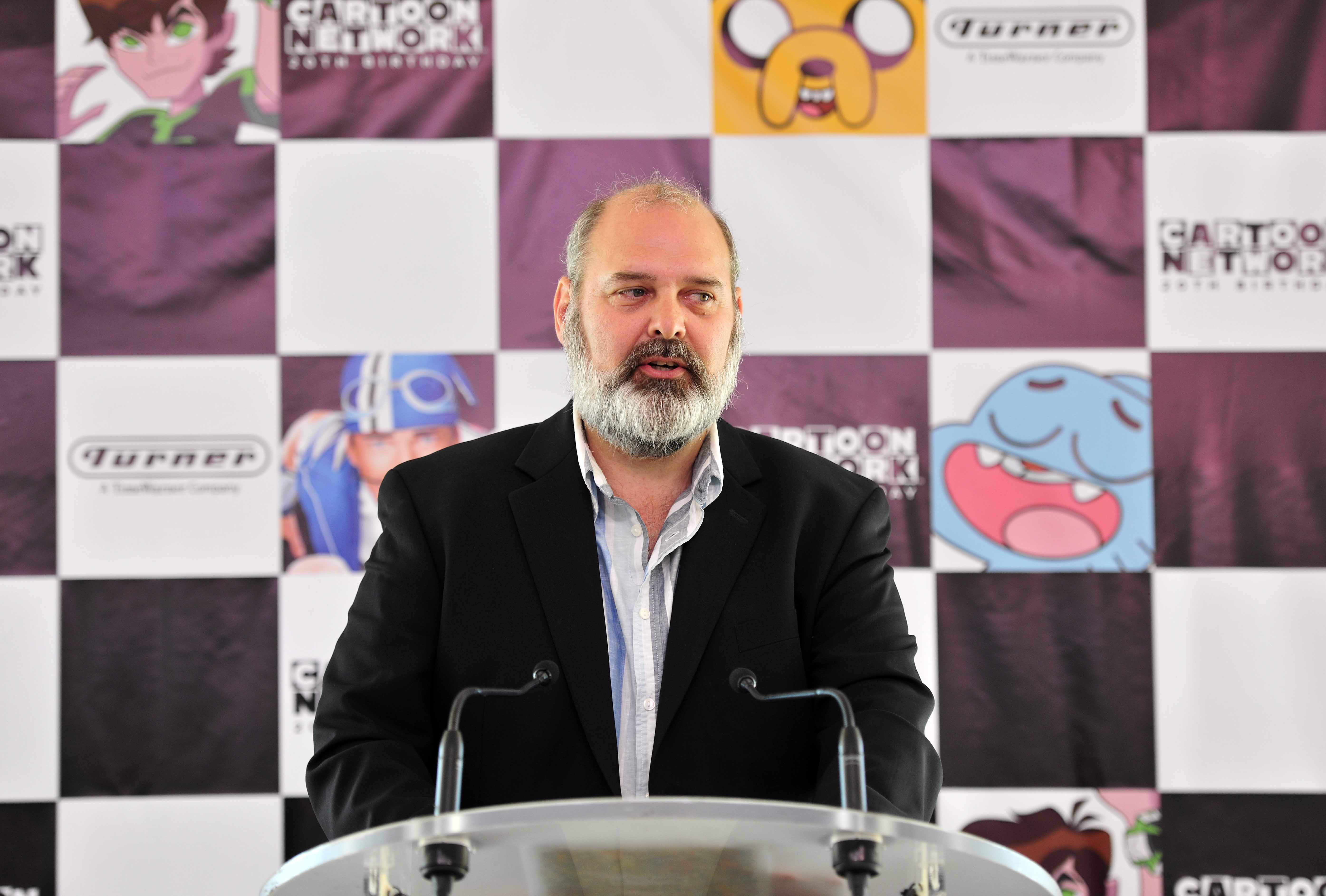 At MIPCOM Junior 2012